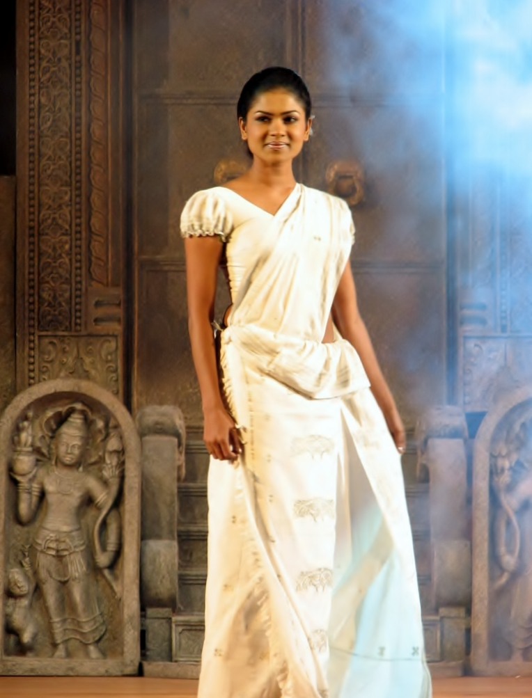 Sinhalese girl wearing traditional Kandyan saree (osaria), National Heros Musical Show - December, 2006